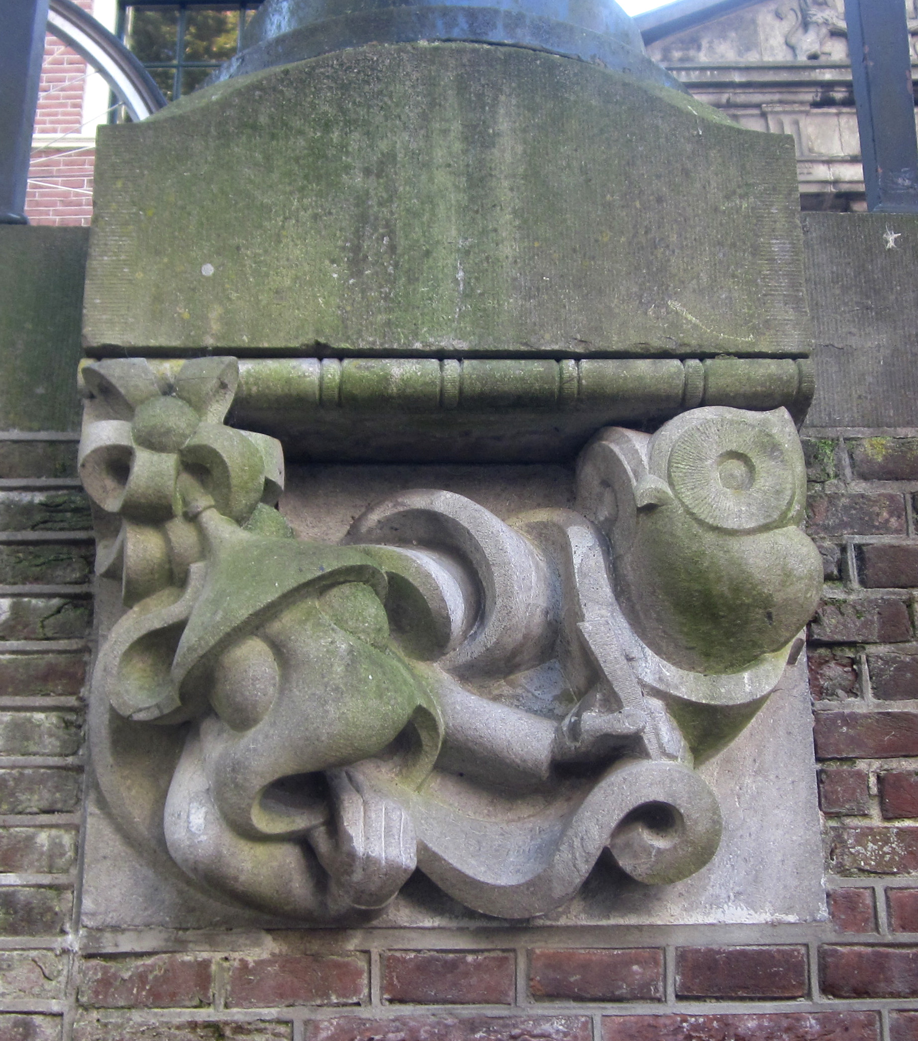 Streetlight corbel "Faculteit Letteren" designed by Jeanot Bürgi and crafted by Kees van der Woude. Placed at the Nieuwegracht 11 around 1969.